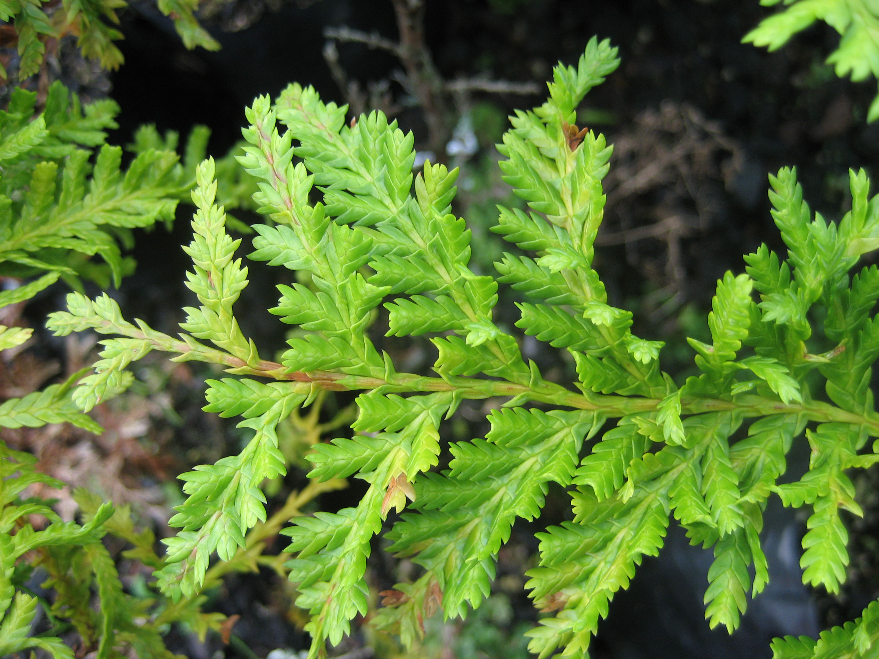 Kawaka or New Zealand Cedar, Libocedrus plumosa, foliage